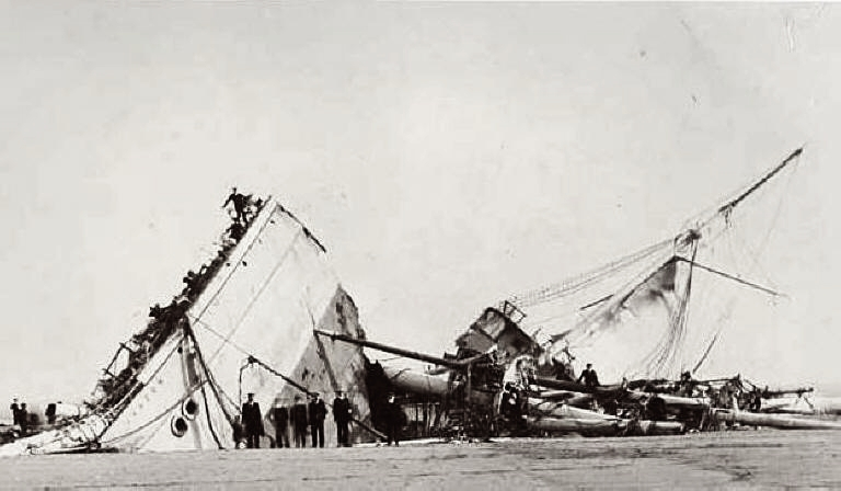 The British four-masted barque „Amazon“ wrecked in 1908 on Port Talbot beach after she had anchored during a gale in Mumbles Roads. 18 of her crew of 25 perished, among them Captain Garrick.